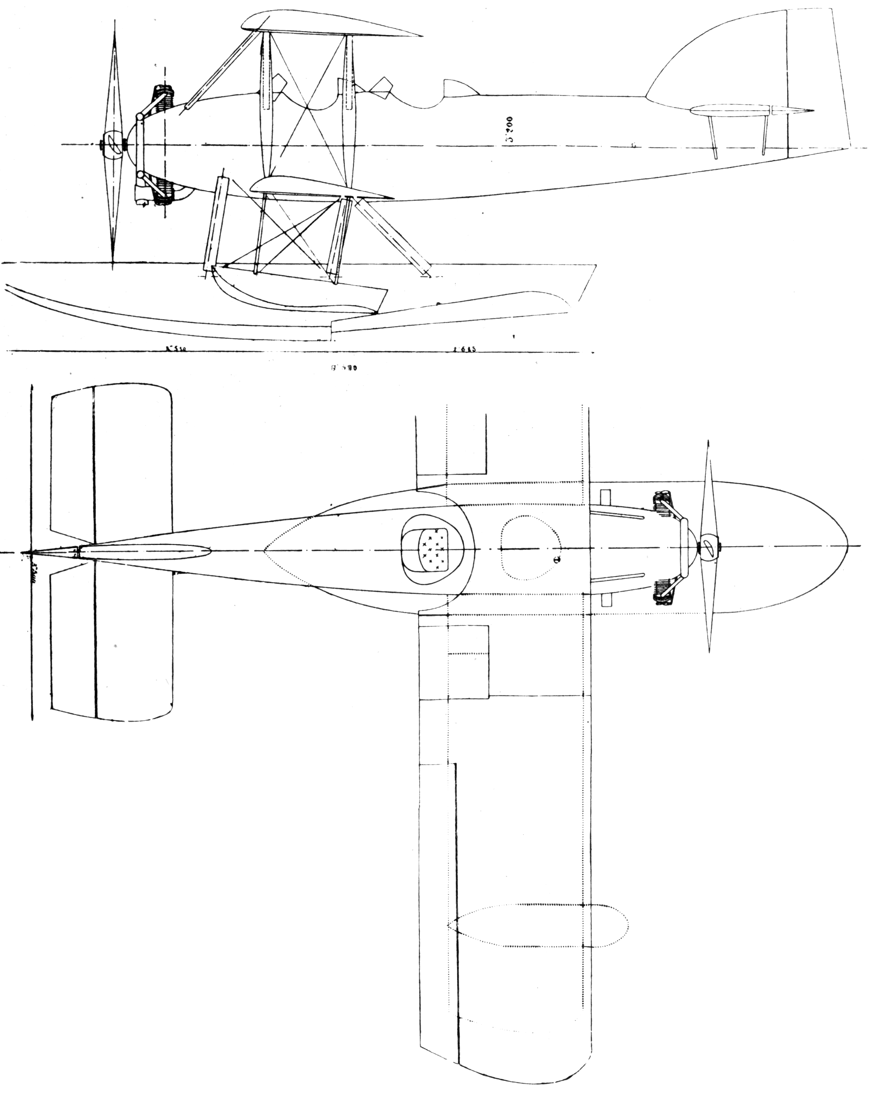 Romano R.4 2-view drawing from L'Air August 1,1927